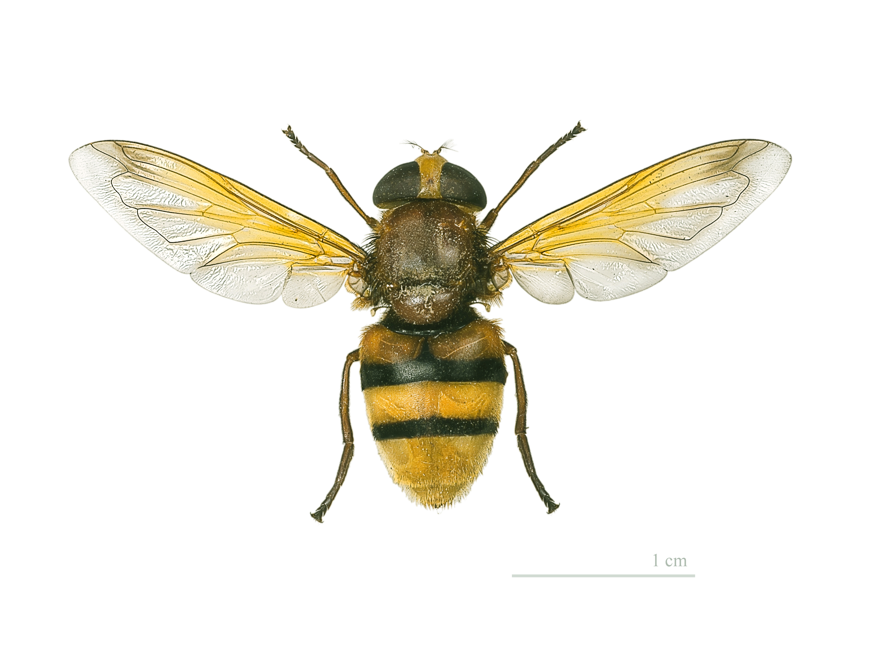 Hornet mimic hoverfly ♀ - Dorsal side Locality: Maourine pond, Toulouse, France